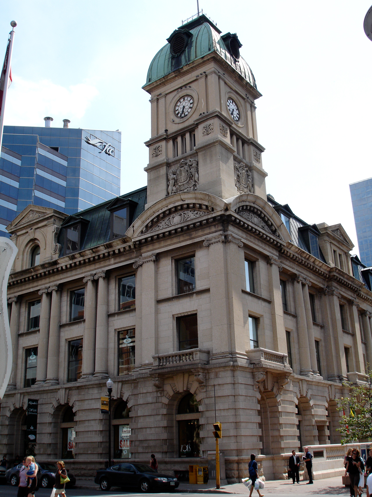 The Prince Edward Building in downtown Regina, Saskatchewan, Canada. Designed by David Ewart, Chief Architect for the Dominion of Canada. It was designed in the popular Beaux-Arts style and was constructed in 1909. Served as Regina's post office until 1956, then its city hall from 1962-1976. Currently home to the Globe Theatre.